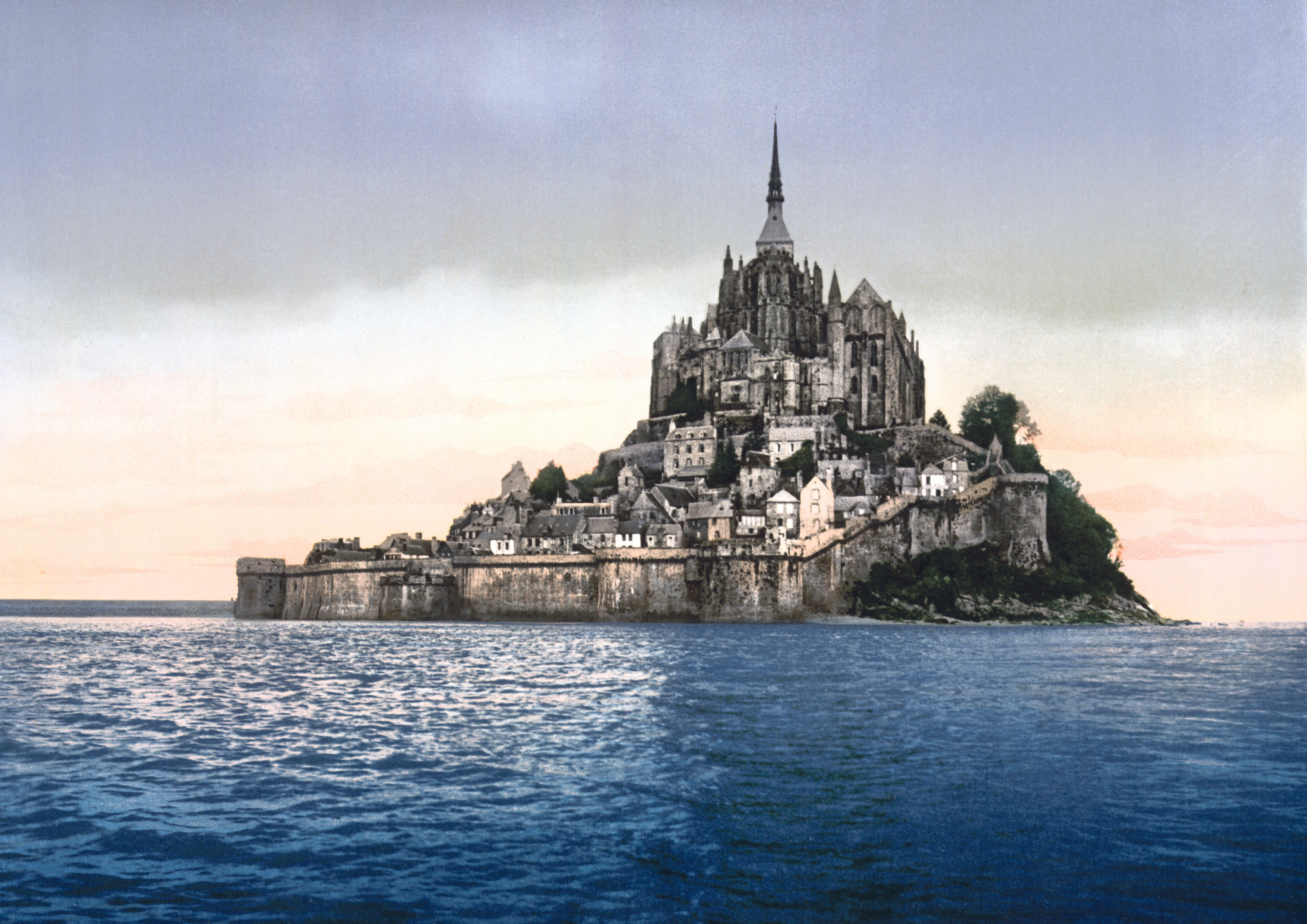 Looking east at high water in 1900, Mont St. Michel, France